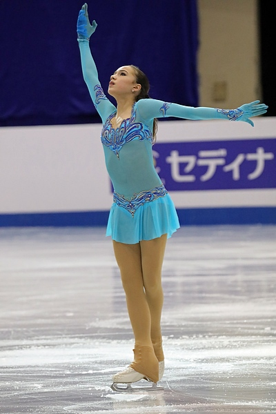 Alina Zagitova at the Junior World Championships 2017 - Short program